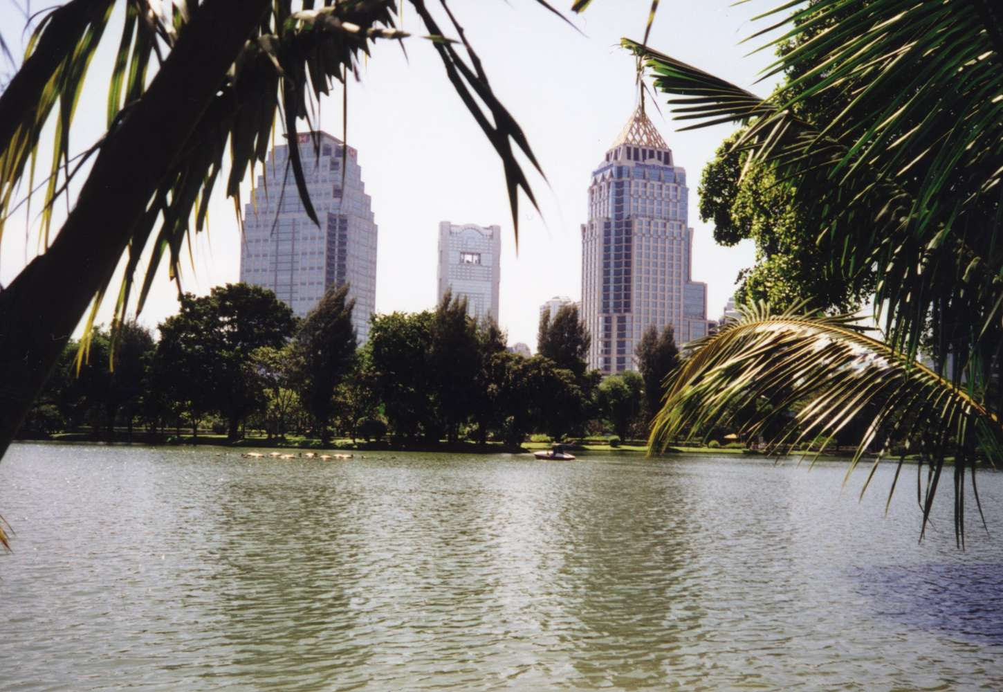 Lumphini park, Bangkok, Thailand. Photo taken on November 2 2000 by User:Ahoerstemeier.